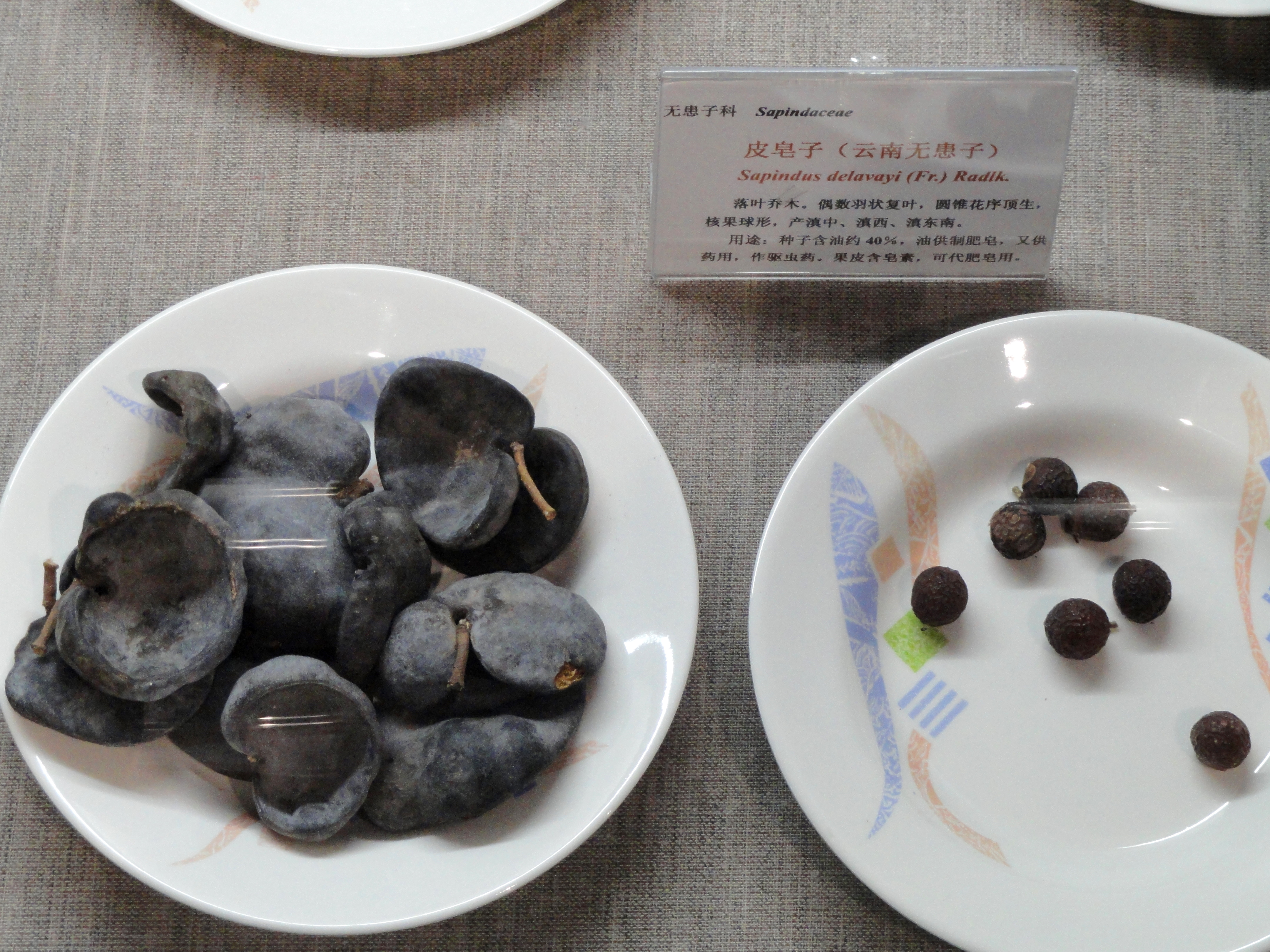 Seeds exhibited in the Kunming Botanical Garden, Kunming, Yunnan, China.